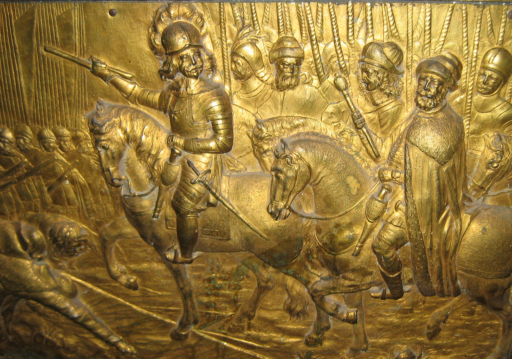 Wladislaus IV of Poland in Smolensk 1634